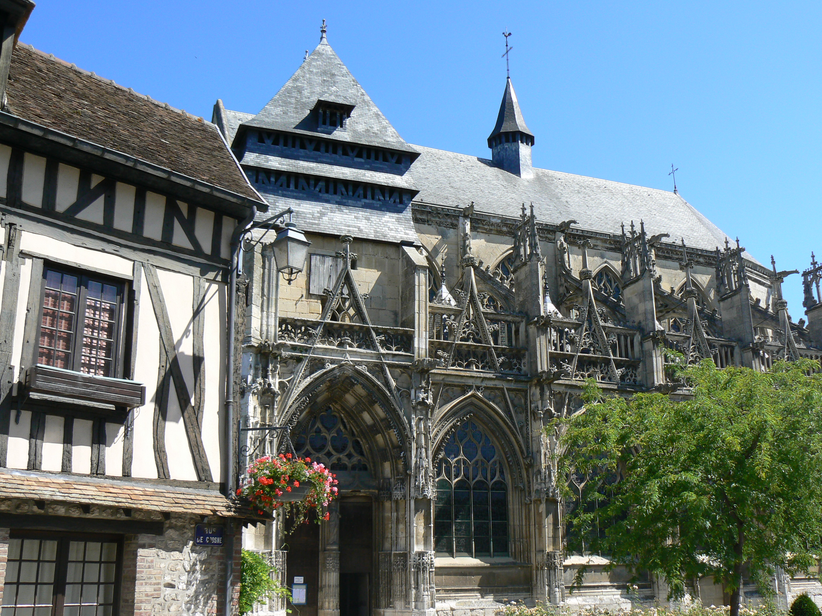 Façade sud de l'église de Pont-de-l'Arche